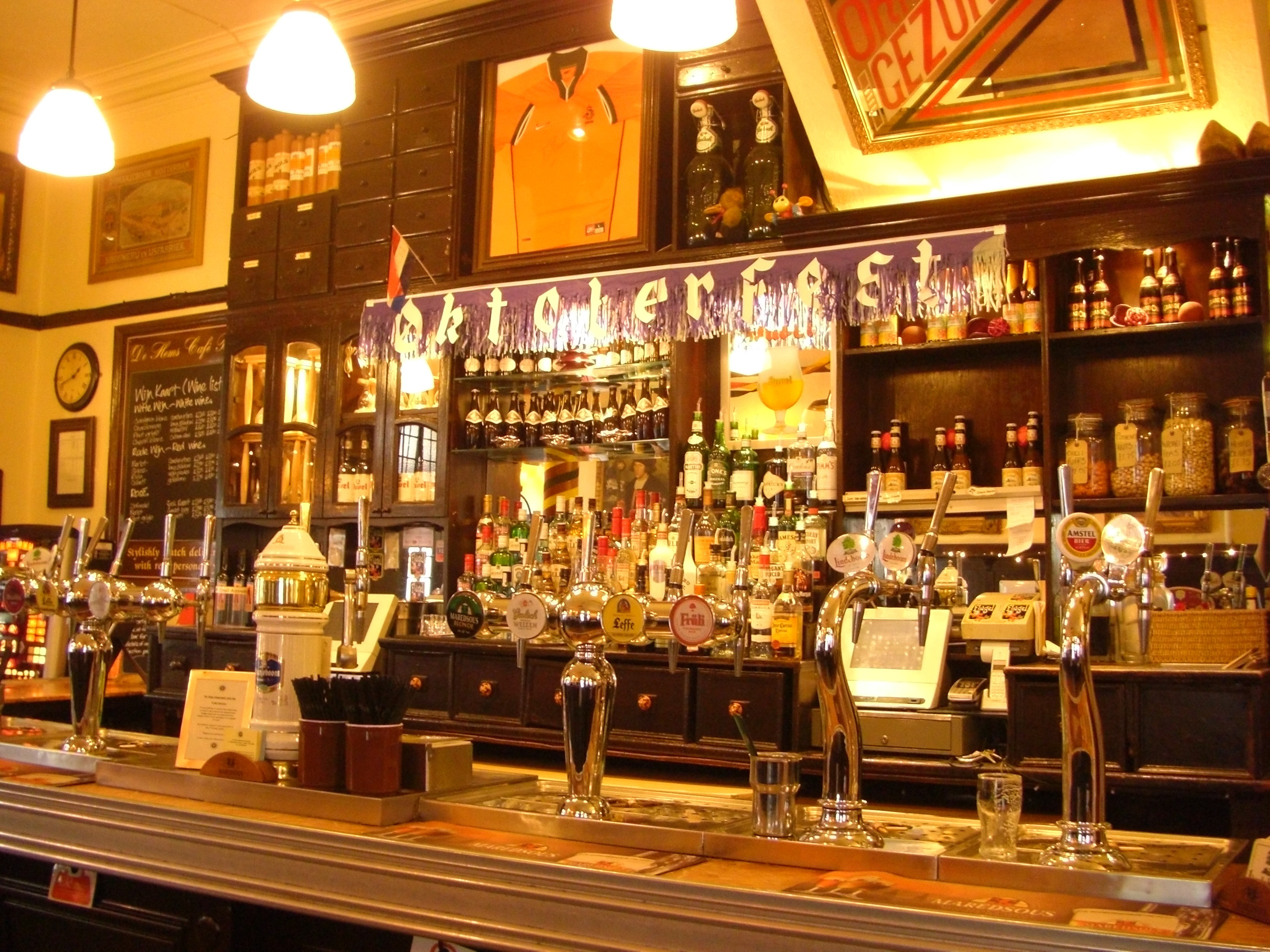 The bar at De Hems.